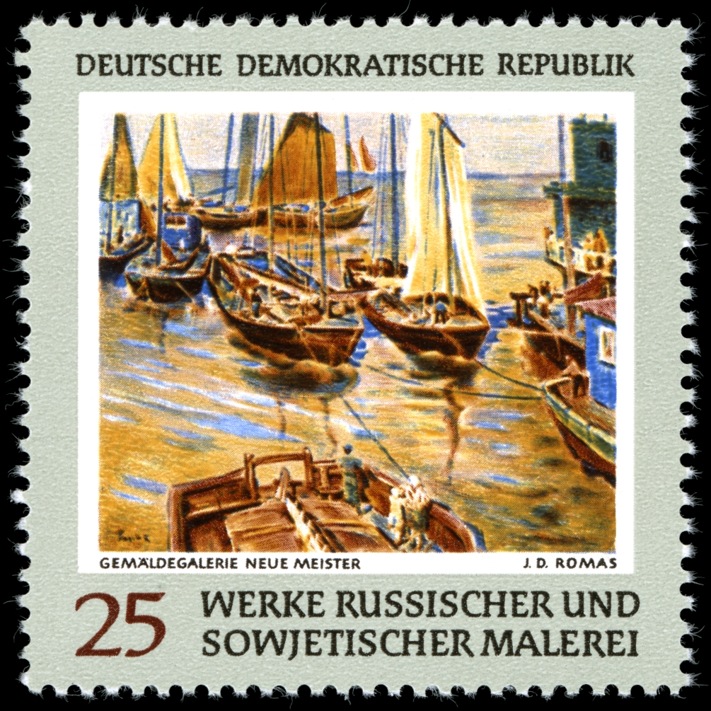 Stamp description / Briefmarkenbeschreibung Artist: J D Romas Ausgabepreis: 25 Pfennig First Day of Issue / Erstausgabetag: 10. Dezember 1969 Auflage: 1.700.000 Entwurf: Naumann und Dutschendorf Druckverfahren: Rastertiefdruck Michel-Katalog-Nr: Ländercode-MiNr: 1531 Licensing This file is most likely NOT in the public domain. It has been marked for review, and will be deleted in due course if the review does not find it to be in the public domain.This file was previously considered to be in the public domain as a German stamp; it is possible that it is in the public domain for other reasons, in which case a new rationale will be applied as part of the review process. See below for the previous rationale. Previous public domain rationale, no longer applicable This stamp is in the public domain in Germany because it was released by the postal administration of the German Democratic Republic or the Soviet occupation zone (Deutschen Post der DDR) whose legal successor is the Federal Republic of Germany. Thus it is an official work according to German copyright law (§ 5 Abs. 1 UrhG).